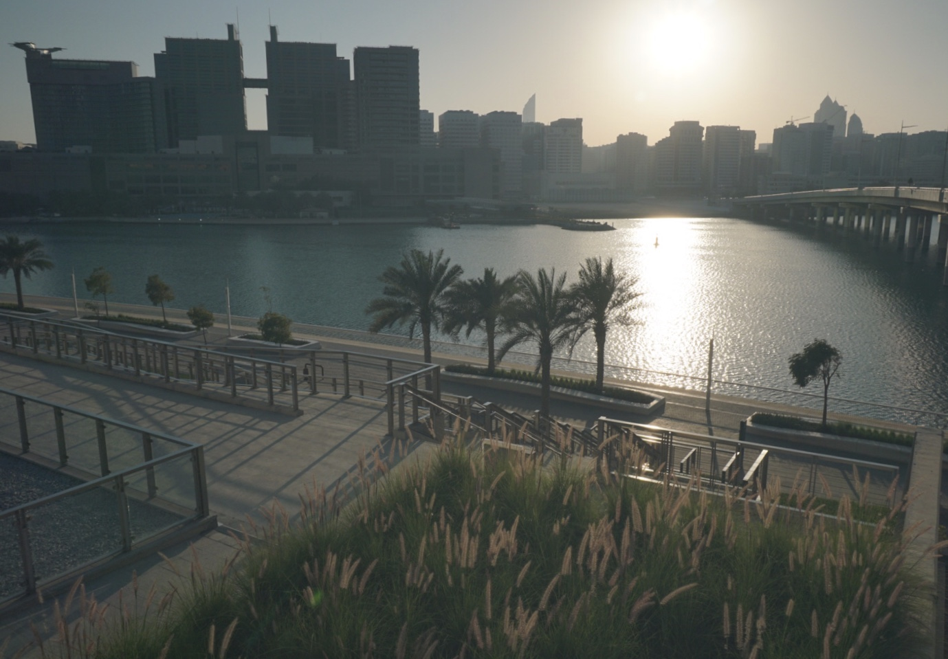 sun about to set at Abu Dhabi